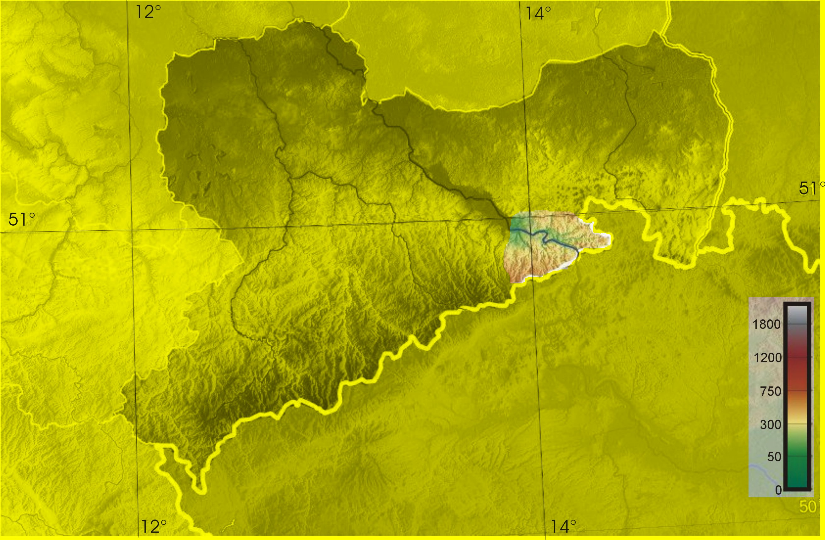 physical map of Saxony Switzerland